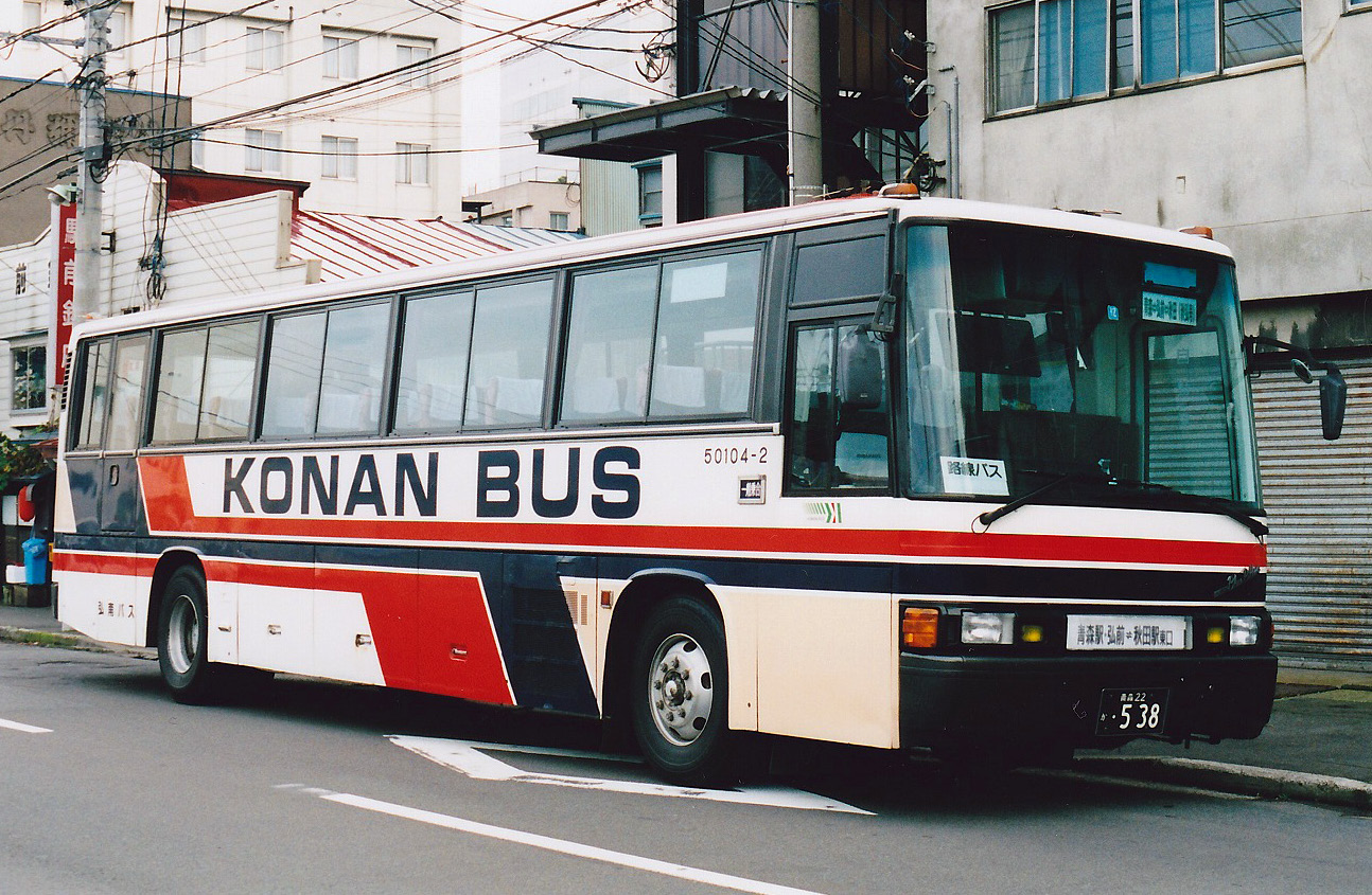 Konan bus Hino Blue Ribbon (P-RU638BB)Highwaybus "Aki-Hiro go"(Aomori,Hirosaki-Akita)